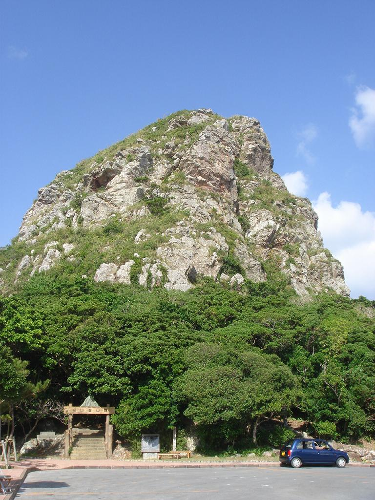 Mount Gusuku, Ie, Kunigami, Okinawa